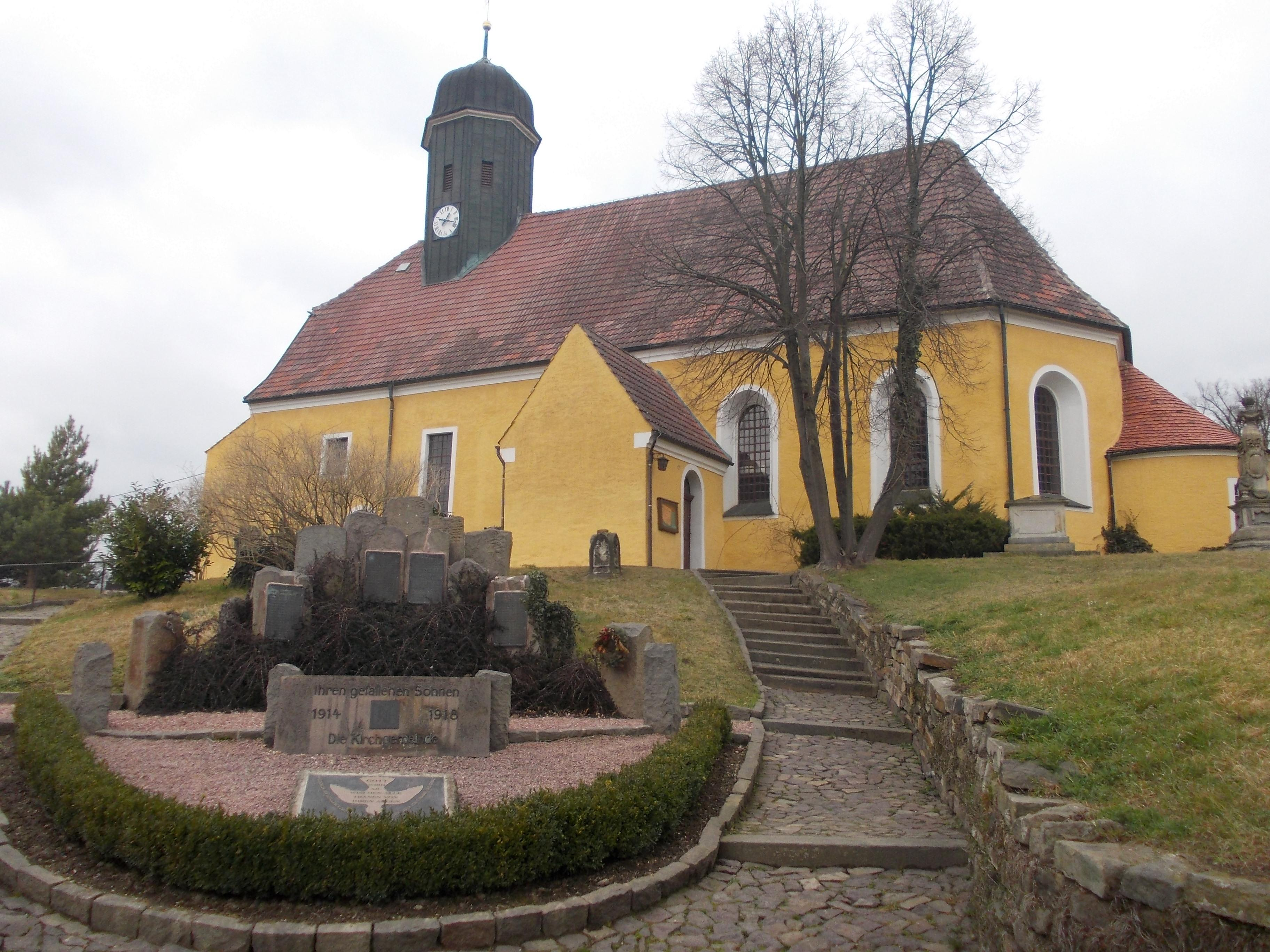 Altoschatz church (Oschatz, Nordsachsen district, Saxony) with World War I memorial